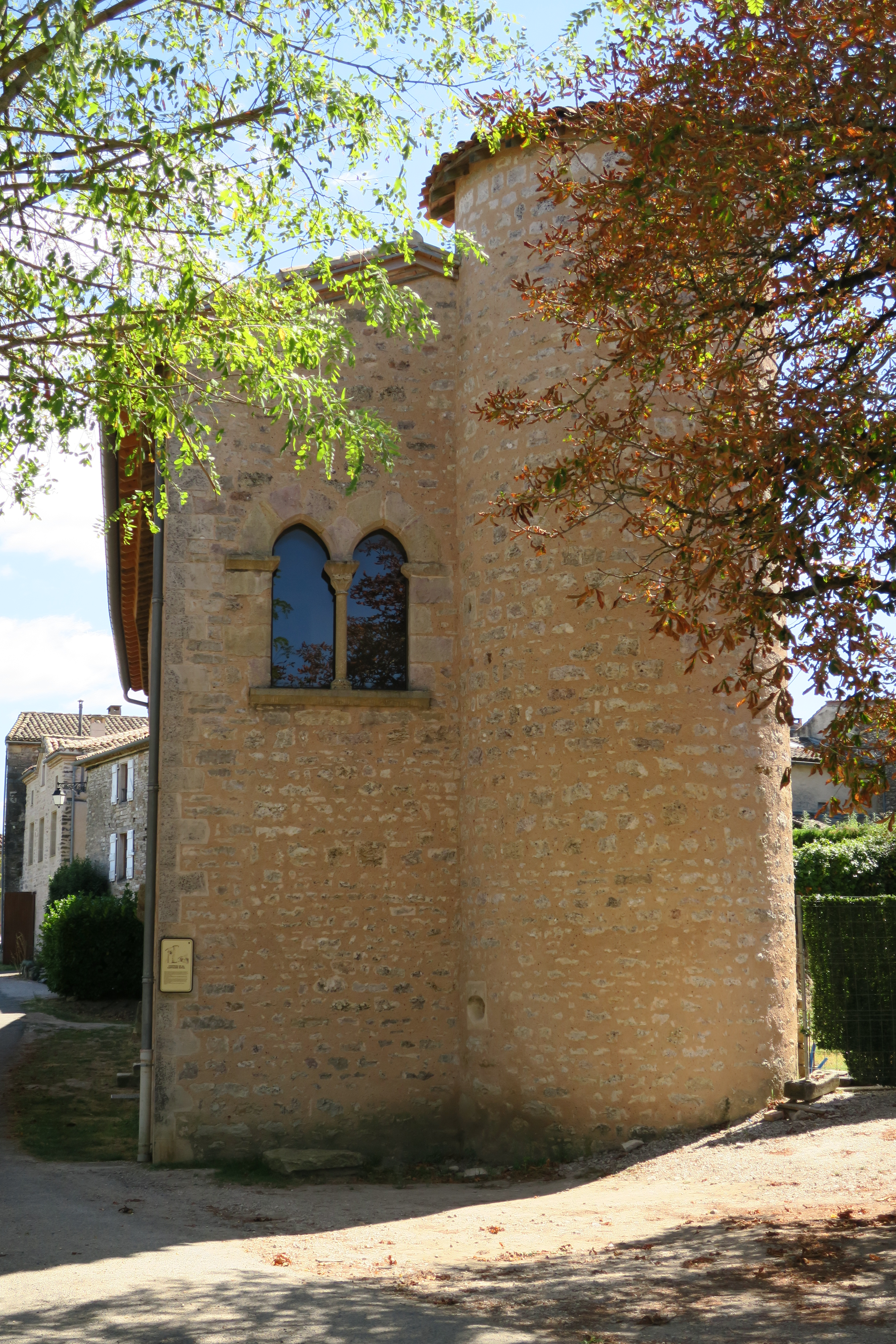 Puycelsi. Castle of the Royal Captain.